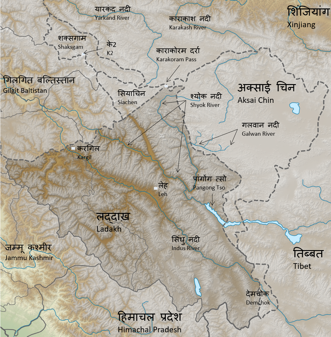 Ladakh relief map, with bilingual feature labeling. Elevation data from STRM. Own work based on File:Ladakh relief map.svg by C1MM, itself based on work by NordNordWest.